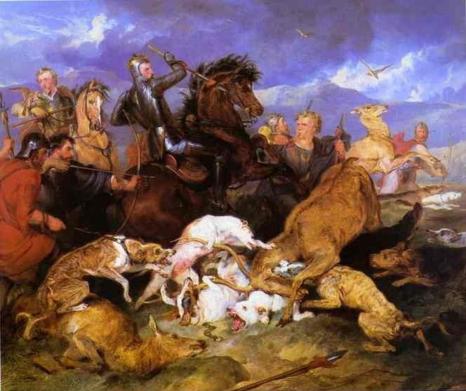 Sir Edwin Landseer The Hunting of Chevy Chase. 1825-1826. Oil on canvas. Birmingham City Museum and Art Gallery, Birmingham, UK.